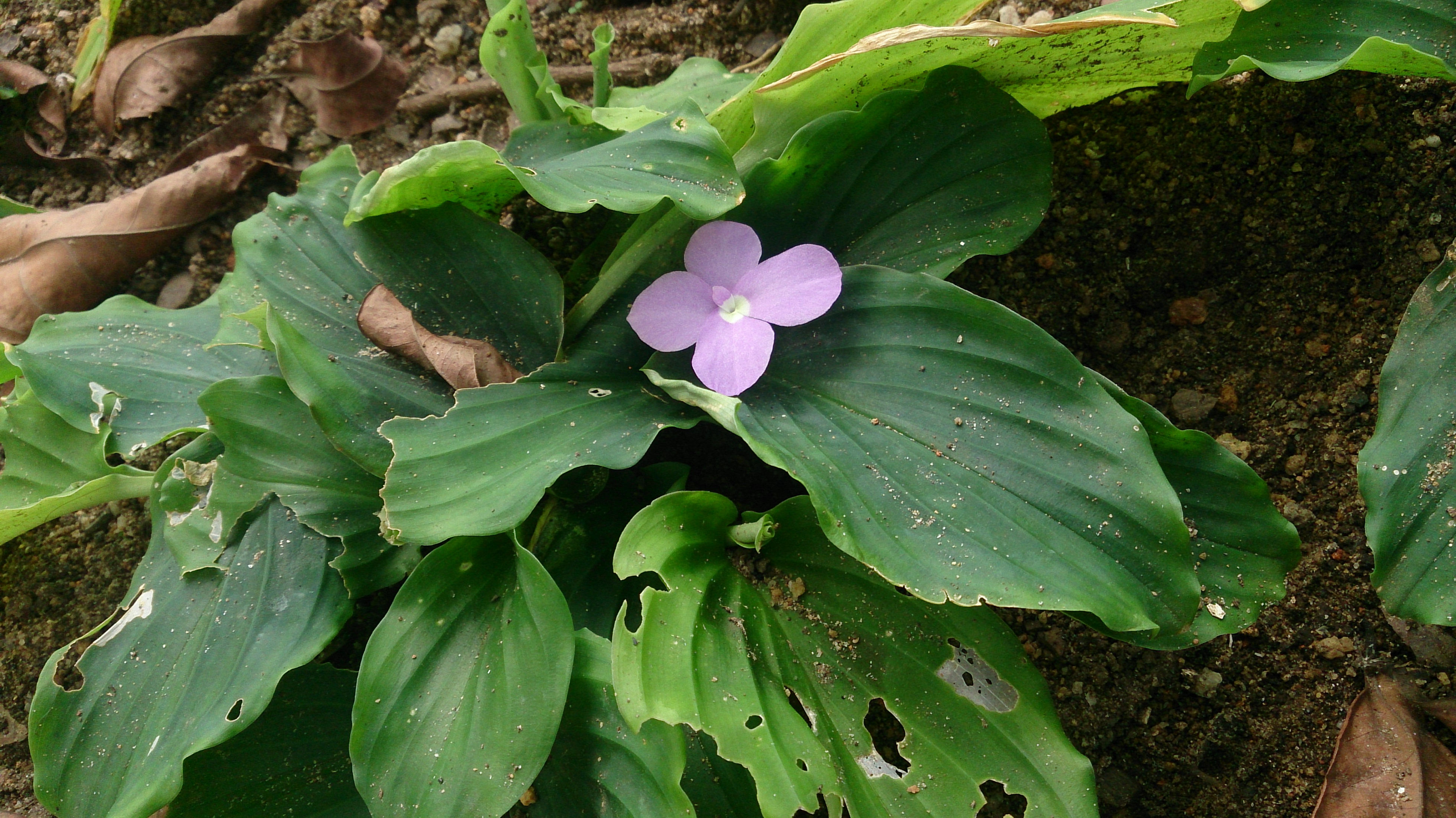 Kaempferia galangal. Common names: Cekur (Malay). Kencur. Maraba, Finger root, Chinese ginger. 山奈 (shān nài) or 沙姜 (shā jiāng) (Chinese) Southeast Asian spice. Used in Thailand as vegetables or added to curry. Leaves and rhizome are eaten raw in ulam with sambal belacan. used in an Indonesian herbal concoction known as jamu to treat pains. A decoction or powder of the rhizomes is used traditionally as a post-natal tonic, and to treat indigestion, abdominal pains, colds, chest pains and headaches. Crushed leaves are used to treat swellings and rheumatism.